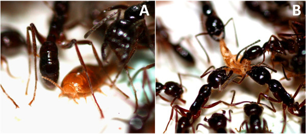 Interactions of Malayatelura ponerophila with Leptogenys processionalis distinguenda host workers Fig 1. von Beeren et al (2011) BMC Ecology, 11:30 Acquisition of chemical recognition cues facilitates integration into ant societies Christoph von Beeren, Stefan Schulz, Rosli Hashim and Volker Witte (A) The silverfish is frequently found beneath host ant workers. Physical contact with the host ants allows the silverfish to acquire cuticular hydrocarbons, which are used by ants as recognition cues. (B) Life in ant colonies also entails a high risk for silverfish, as they are sometimes recognised, attacked, and killed by the host ants.